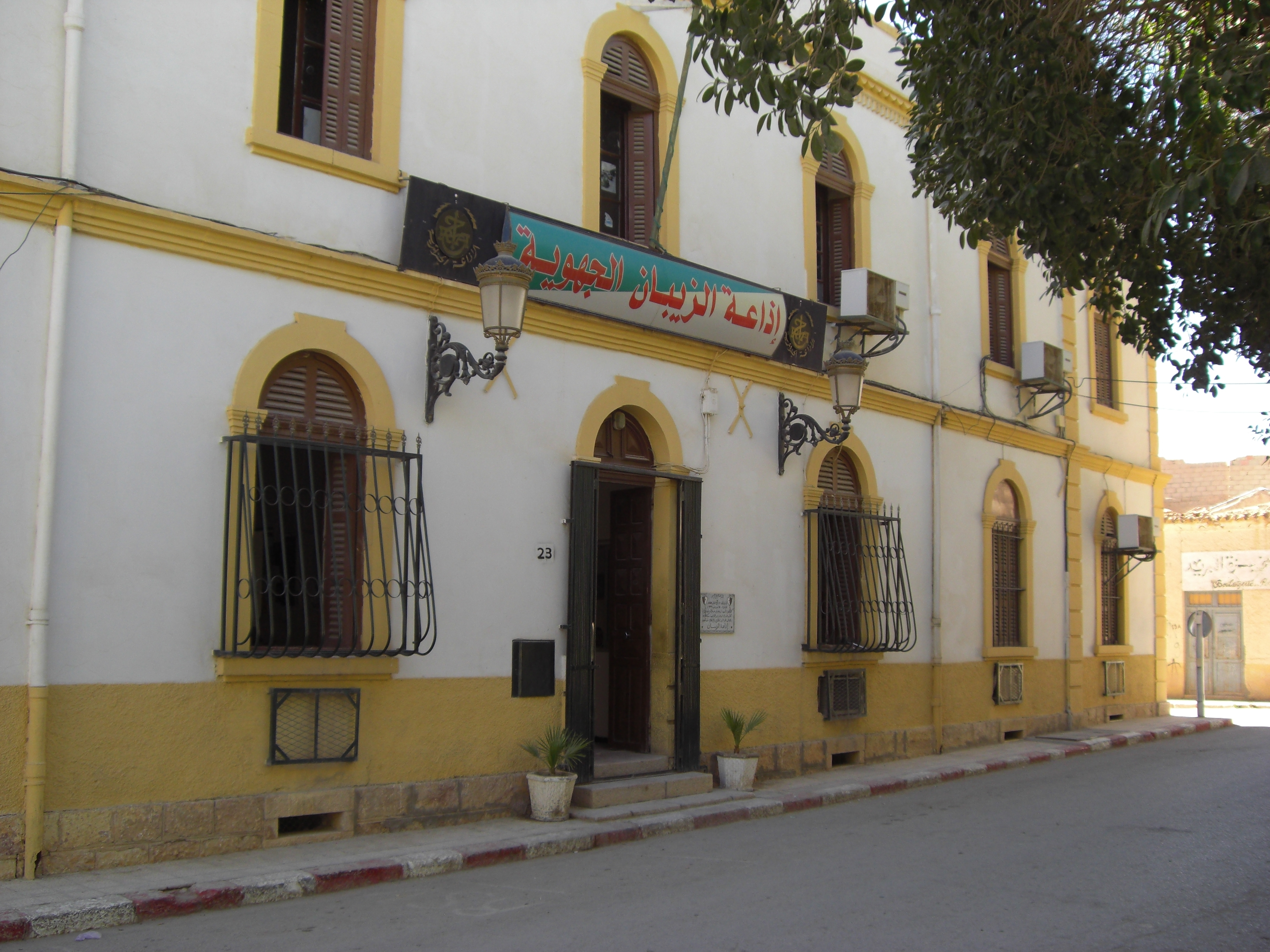 Radio Biskra in Algeria.